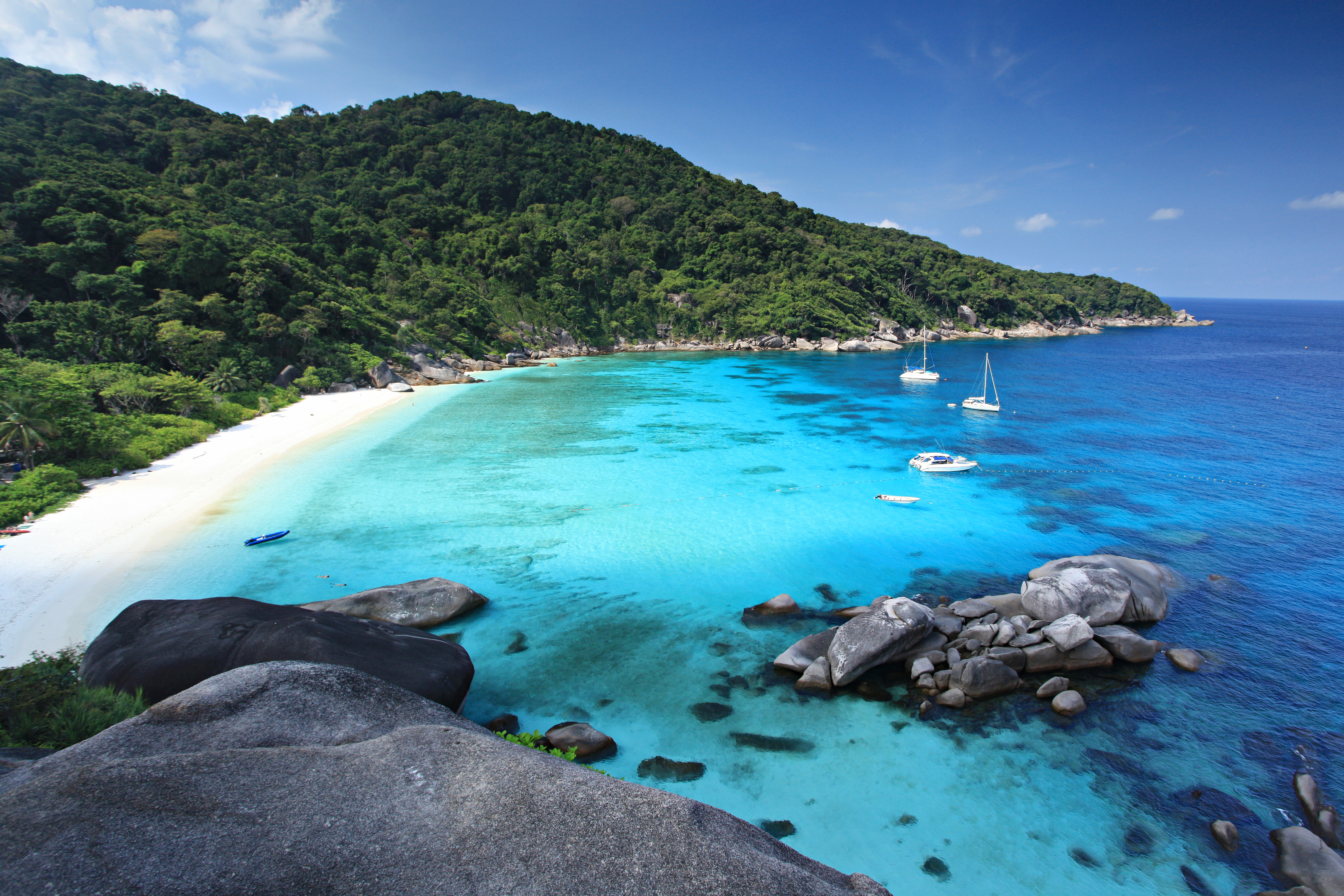 Similan Islands is an underwater paradise teeming with life at large. The coral And among fishes. The water was crystal clear glass and has a beautiful white sand beaches. Similan is famous for its beautiful deep water, 1 in 10 of the world's top sailing and rock as a symbol of the Similan Islands National Park. Leasing is located at the island, 8 (Similan Islands) that is very beautiful. And is a highlight of the Similan Islands.